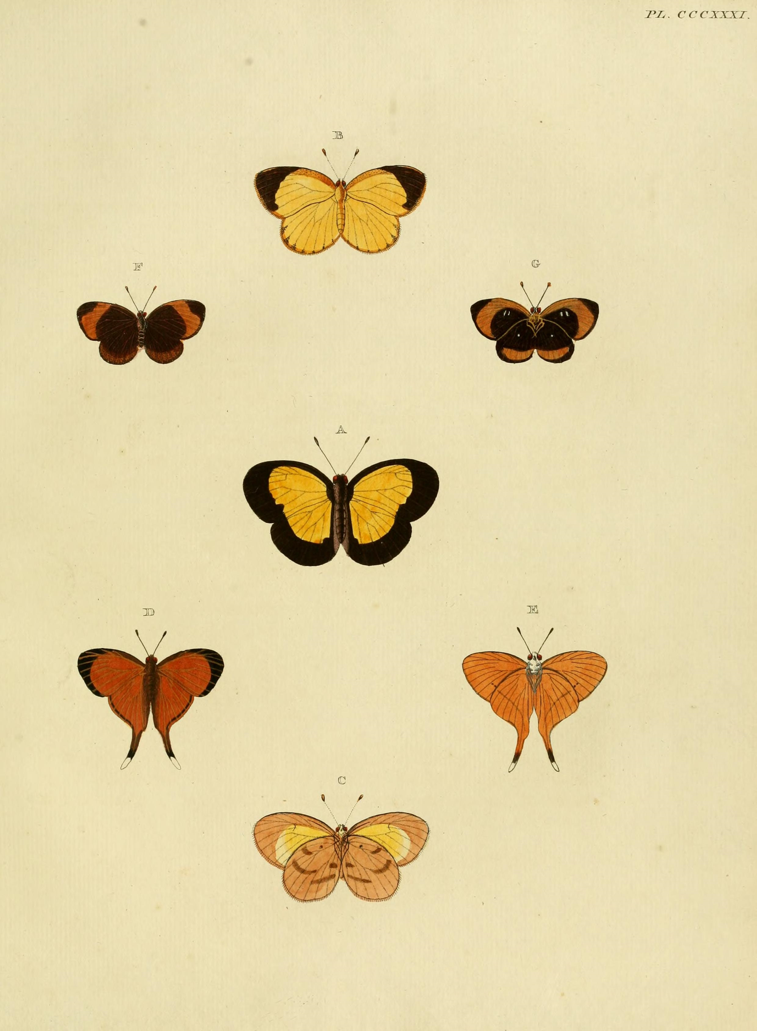 Plate CCCXXXI Warning: some taxa/names may be misidentified/misapplied or placed in a different genus. A: "(Papilio) Candida" ( = Eurema candida (Stoll, [1782]), iconotype?, see Funet). B, C: "(Papilio) Brigitta" ( = Eurema brigitta (Stoll, [1780]), iconotype?, see Funet). Photos at Barcode of Life. D, E: "(Papilio) Atymnus" ( = Loxura atymnus (Linnaeus, 1758), see Funet). Photos at Barcode of Life. F, G: "(Papilio) Evander" ( = Callidula evander (Linnaeus, 1758), see Funet).